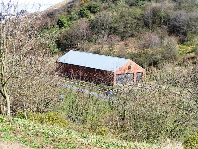 Source description page says: "Engine Shed for the Woodland Glade Miniature Railway, Saltburn" near to Saltburn-by-The-Sea, Redcar And Cleveland, United Kingdom